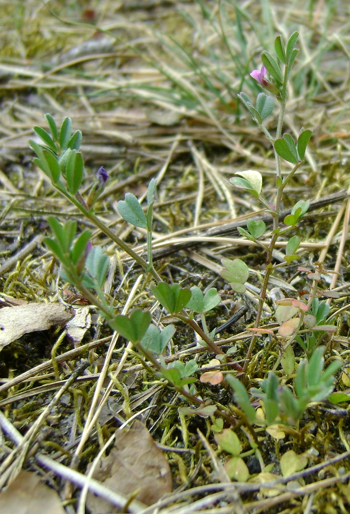 Vicia lathyroides